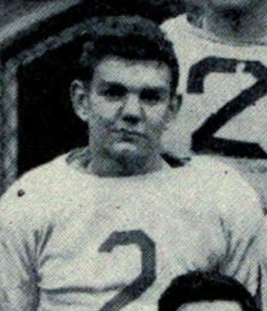 Peter McParland, c. 1944